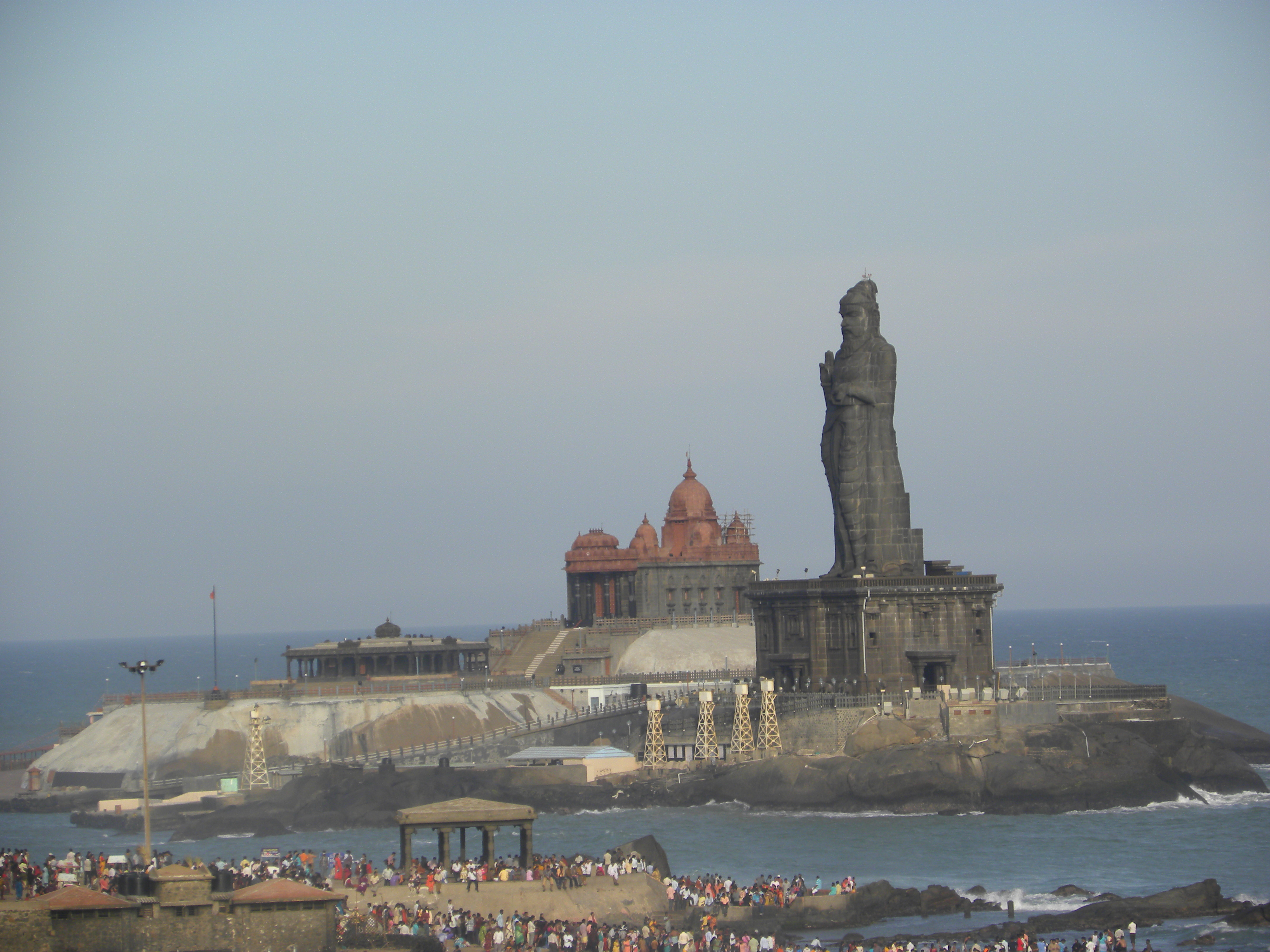 Thiruvalluvar Statue and the adjacent Vivekananda Rock Memorial in Kanyakumari.